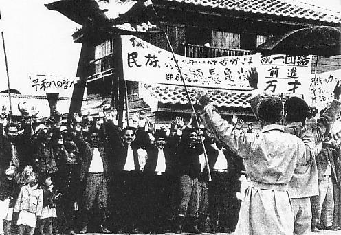 Prison Release Celebration of Kamejiro Senaga